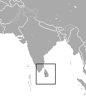 Sri Lankan Shrew (Suncus fellowesgordoni) range